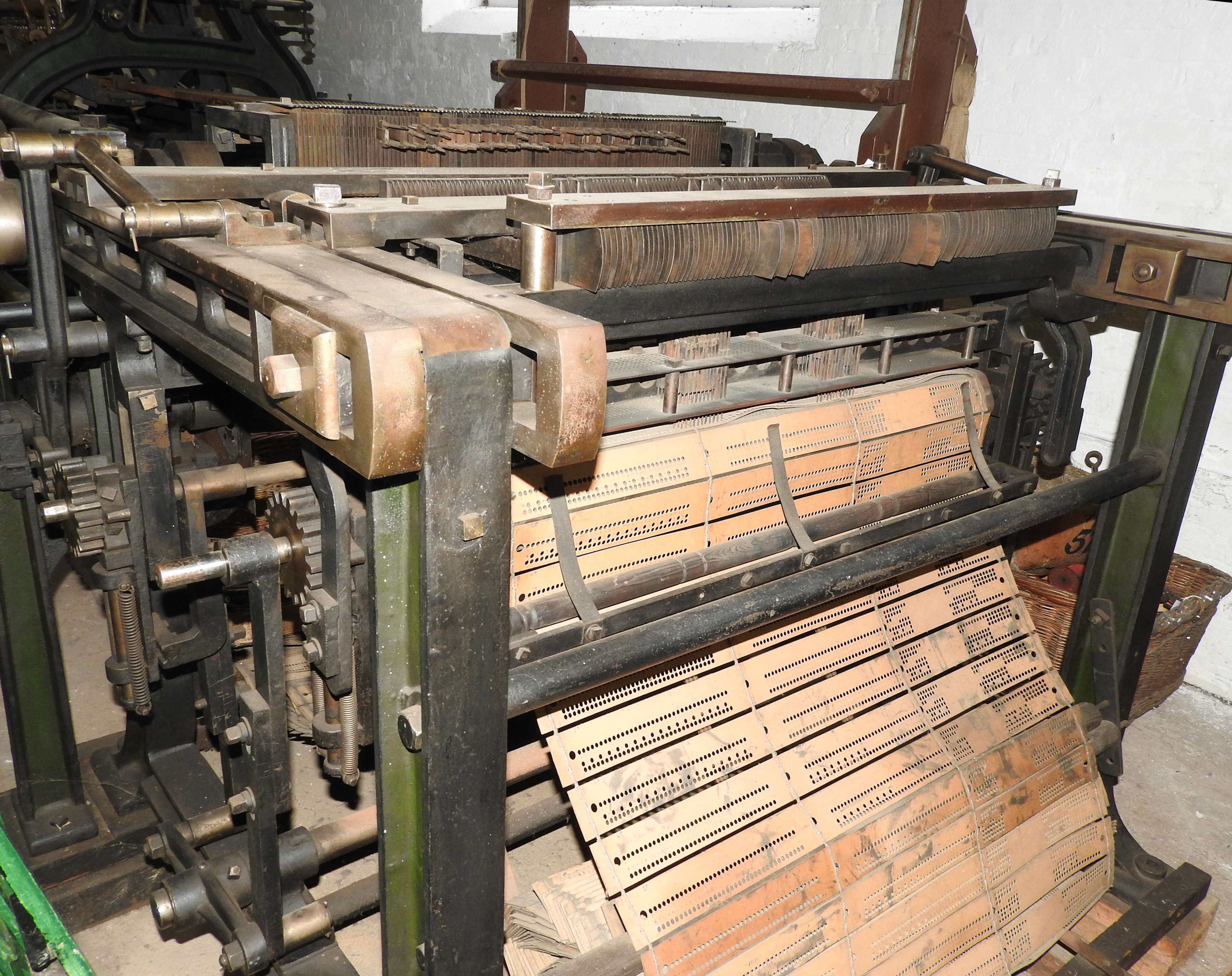 Nottingham Industrial Museum